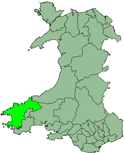 Wales - Preseli district - 1974